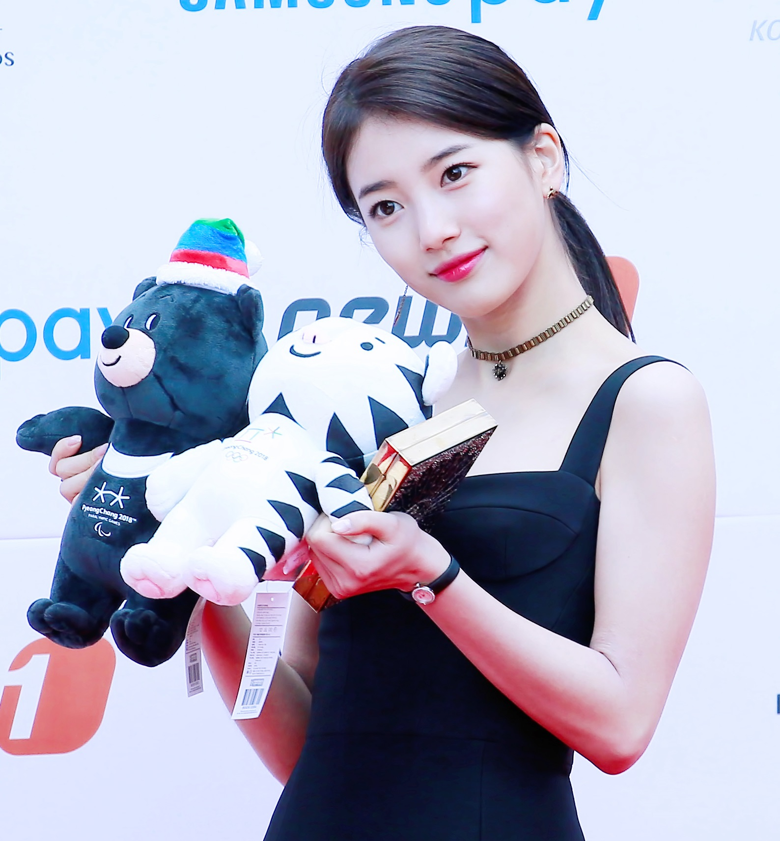 Suzy at Asian Artist Awards, 11 November 2017